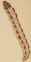 Stainton’s Natural History of the Tineina (1855–1873): Elachista cinereopunctella